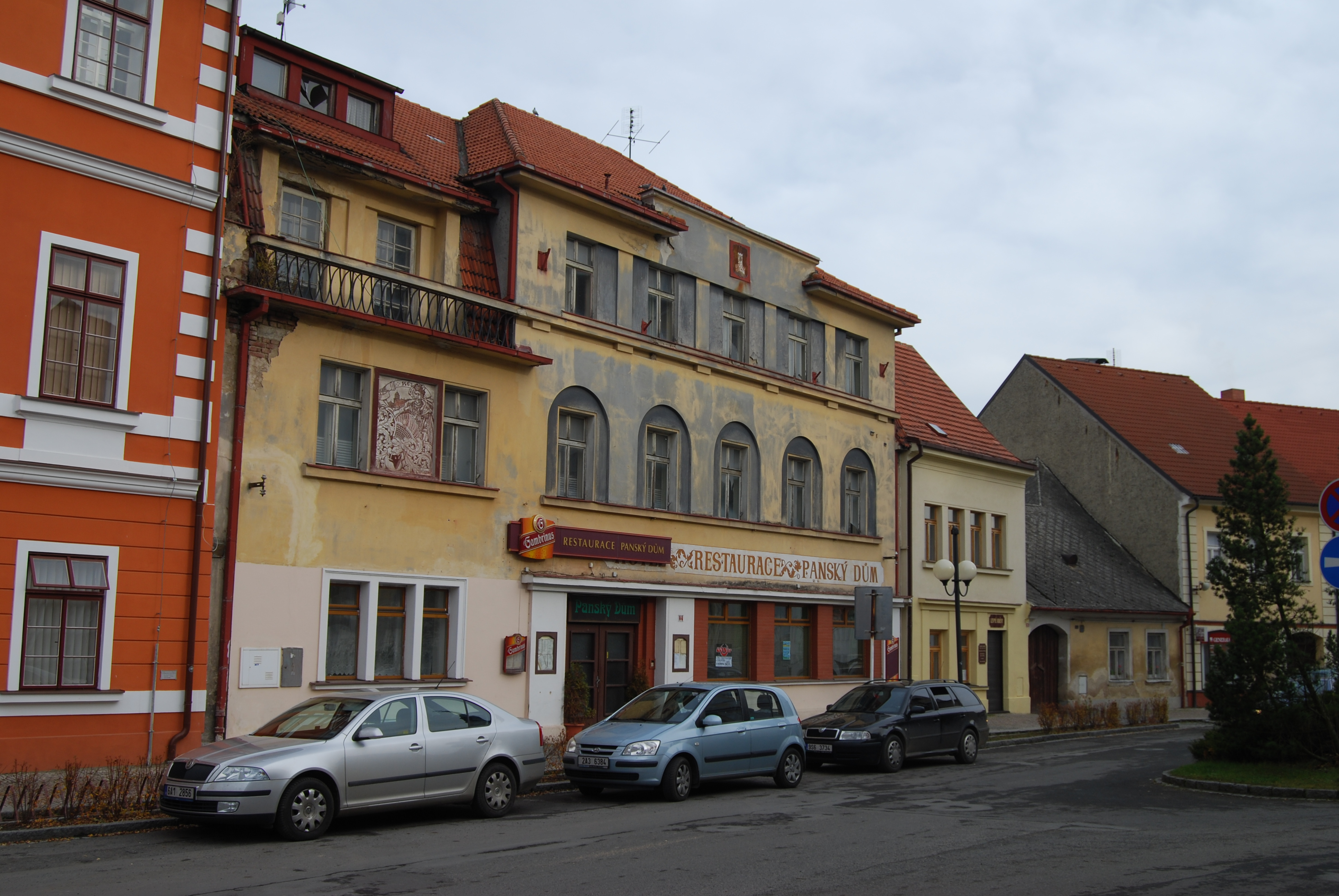 Pub in Rožmitál pod Třemšínem in Příbram District, Czech Republic.